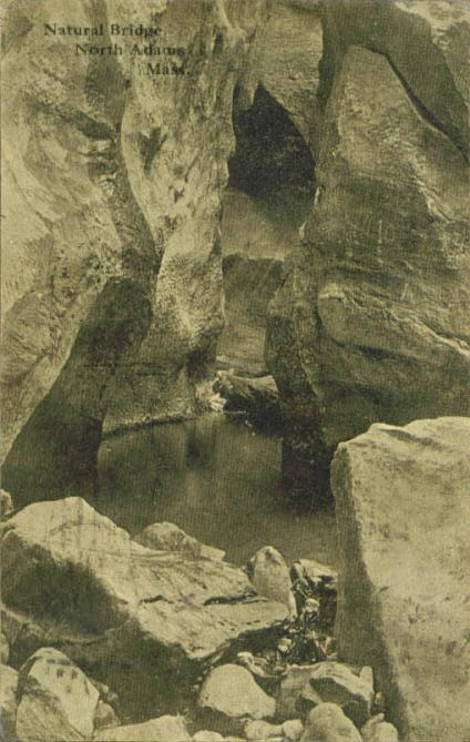 Natural Bridge, North Adams, MA; from a 1911 postcard.